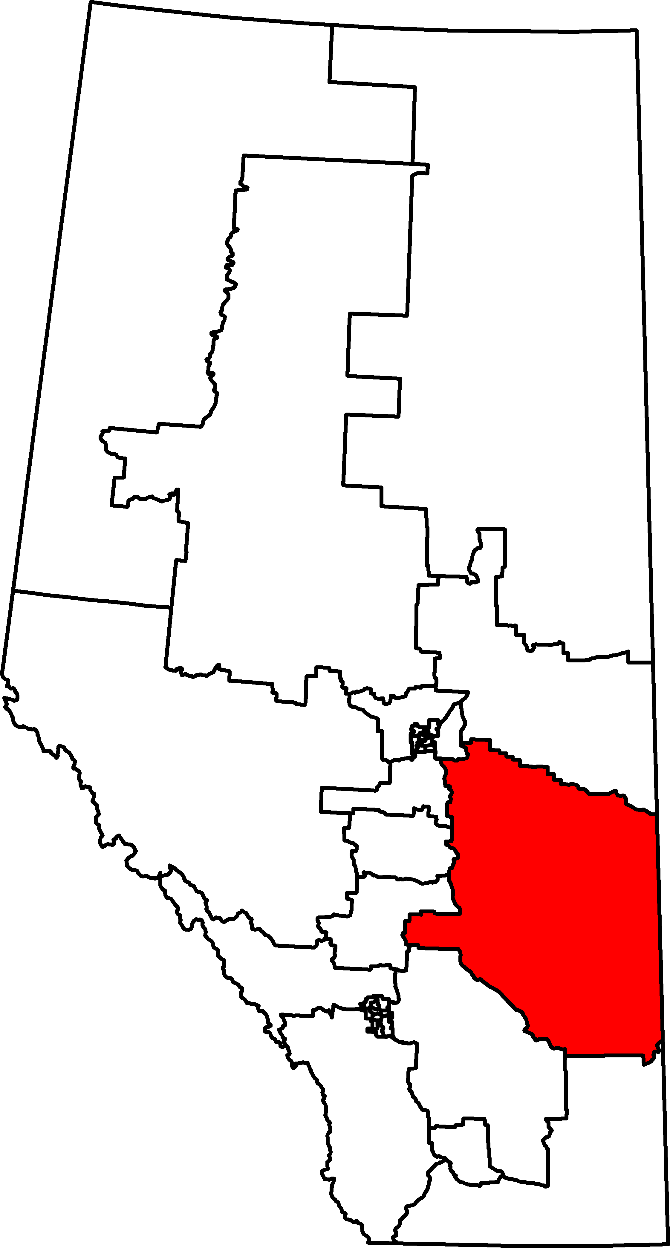 Federal Electoral District in Alberta, Canada as of the 2013 Representation Order.